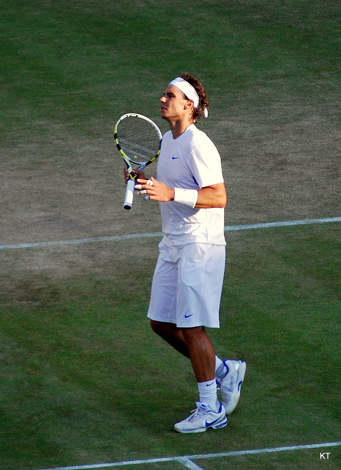 Rafael Nadal during his quarter-final with Mardy Fish on Court 1, on Day 9 of Wimbledon 2011. Nadal won 6-3 6-3 5-7 6-4.